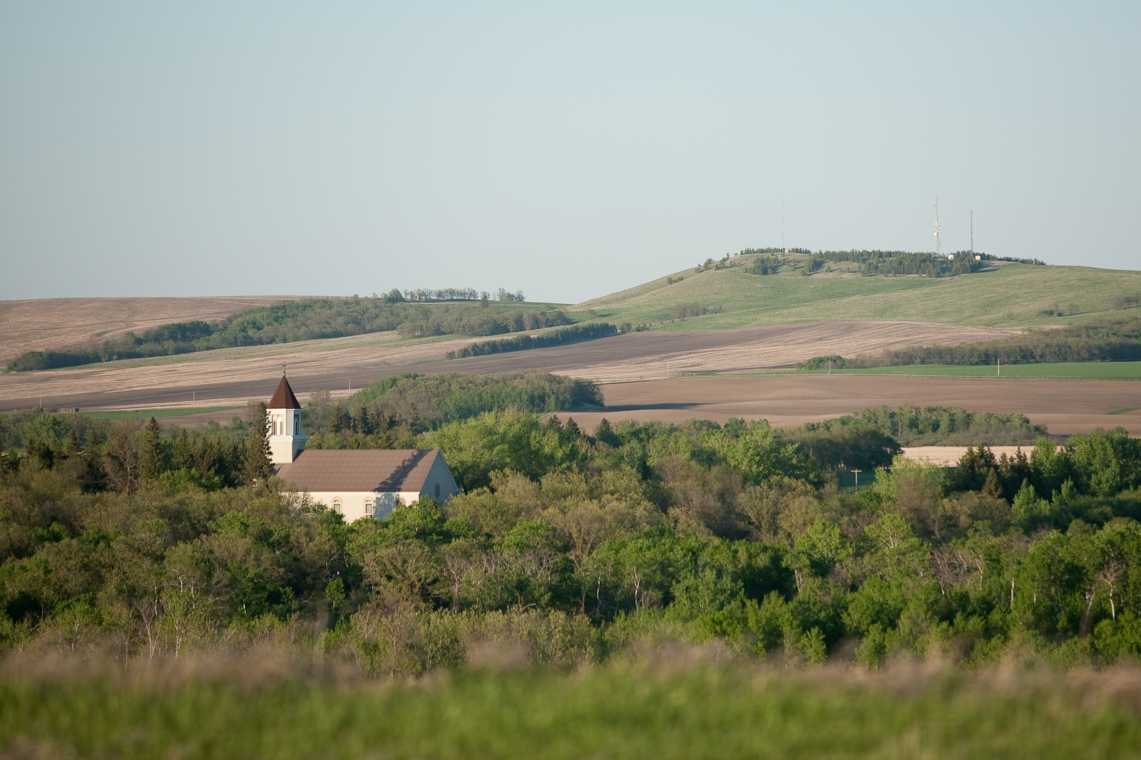 Landscape shot of Bruxelles, Manitoba, Canada, facing Northeast